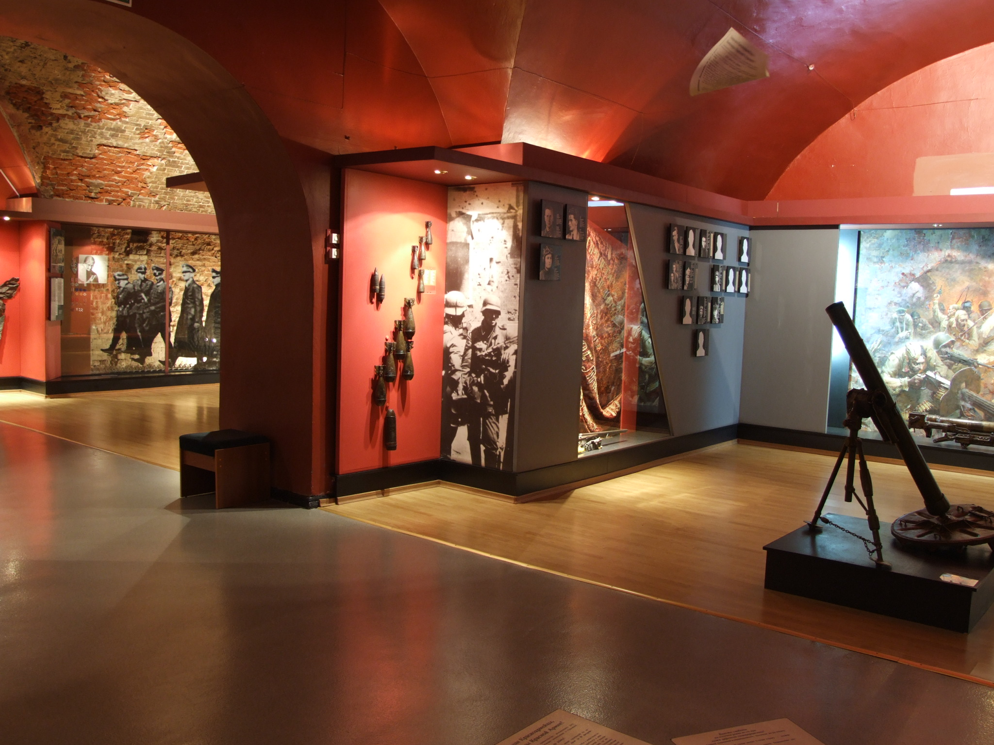 Museum of the defense of the Brest fortress, 6th room, dedicated to the fights for the citadel